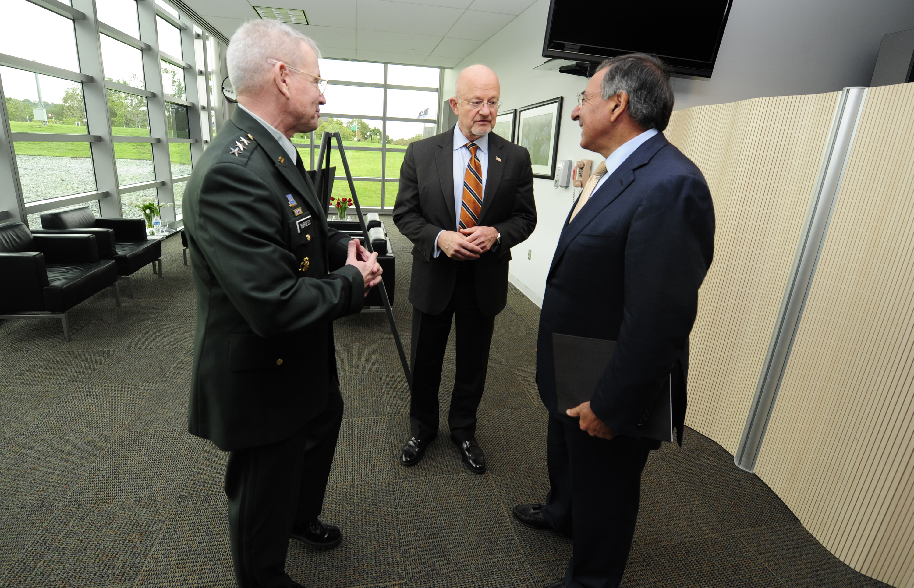 Defense Secretary Leon E. Panetta meets with James Clapper Jr., center, director of National Intelligence, and Lt. Gen. Ronald Burgess Jr., director of the Defense Intelligence Agency, before the agency's 50th anniversary commemoration ceremony on Joint Base Anacostia-Bolling in Washington, D.C., Sept. 29, 2011.